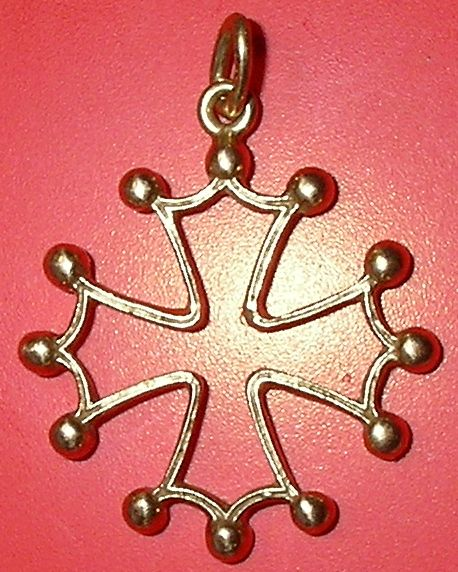 Occitan cross on red ground